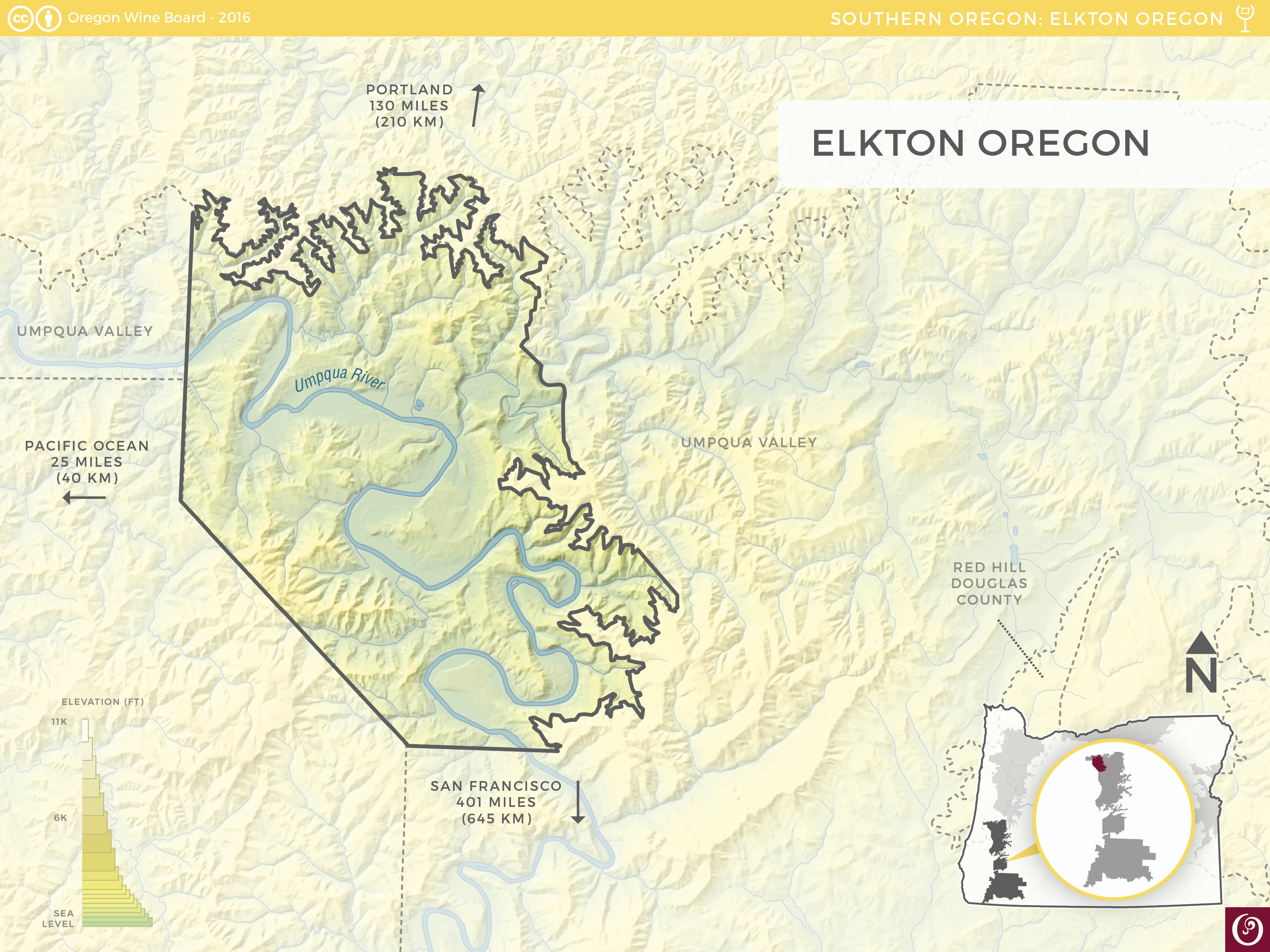 The Elkton Oregon AVA is situated 33 miles (53 km) inland from the Pacific Ocean. It is wholly within the Umpqua Valley AVA, which in turn lies within the larger Southern Oregon AVA.